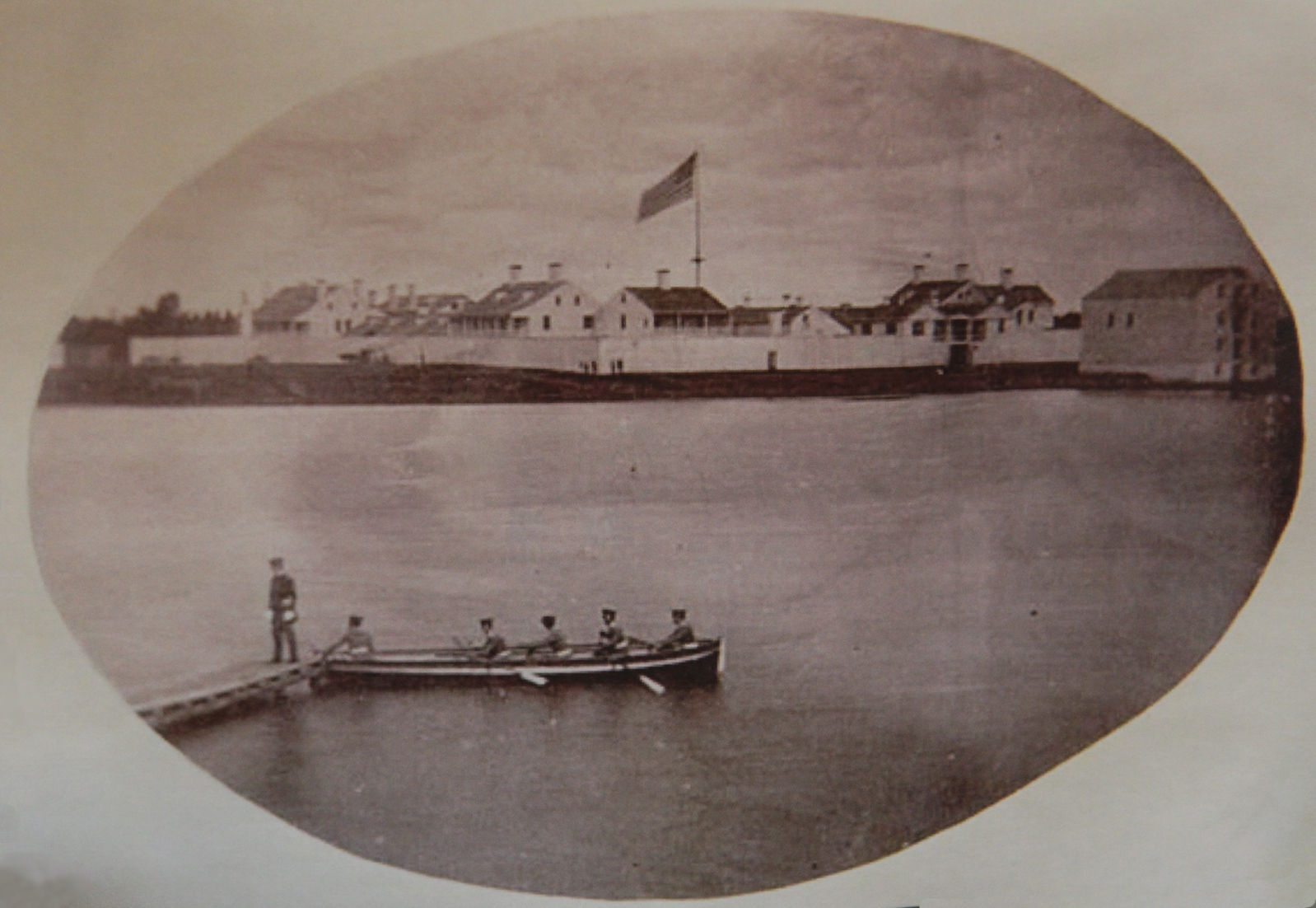 Photograph of Fort Howard (Wisconsin), during occupancy, from the Fox River. The fort was used between 1812 and 1853.